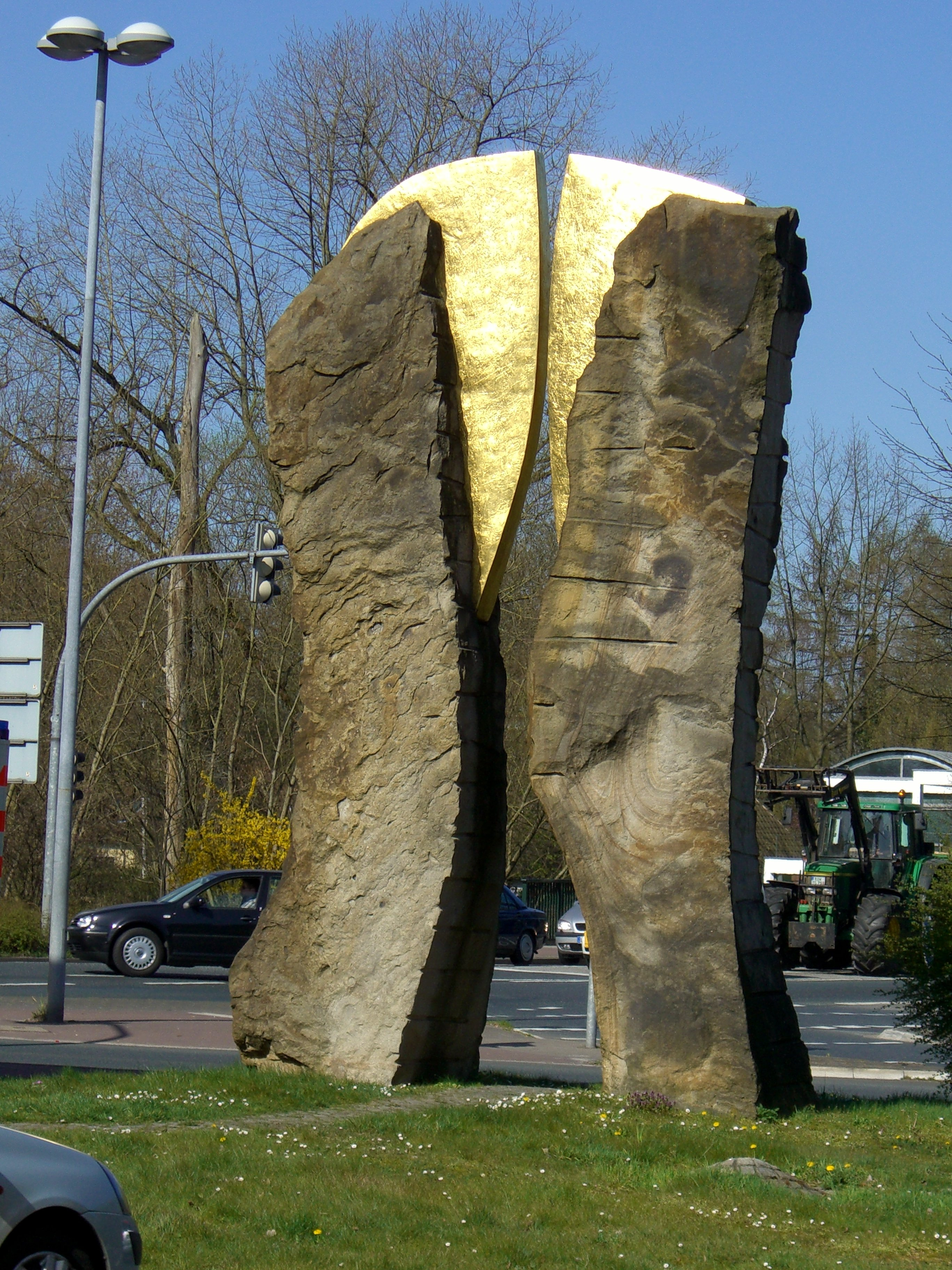 town of Rotenburg: Sculpture „Tor zur Stadt“ by Werner Ratering